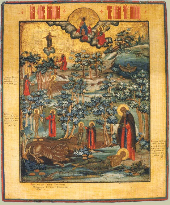 St. Mary of Egypt